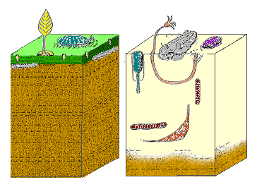 Cambrian substrate revolution mark 2, showing more of pre-CSR biota. For use with Template:Annotated image